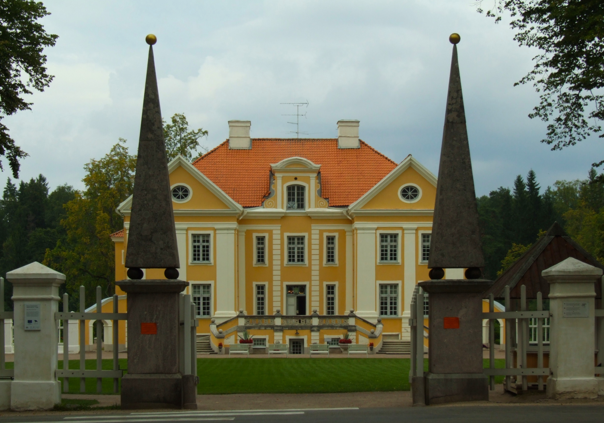 Castle in Palmse